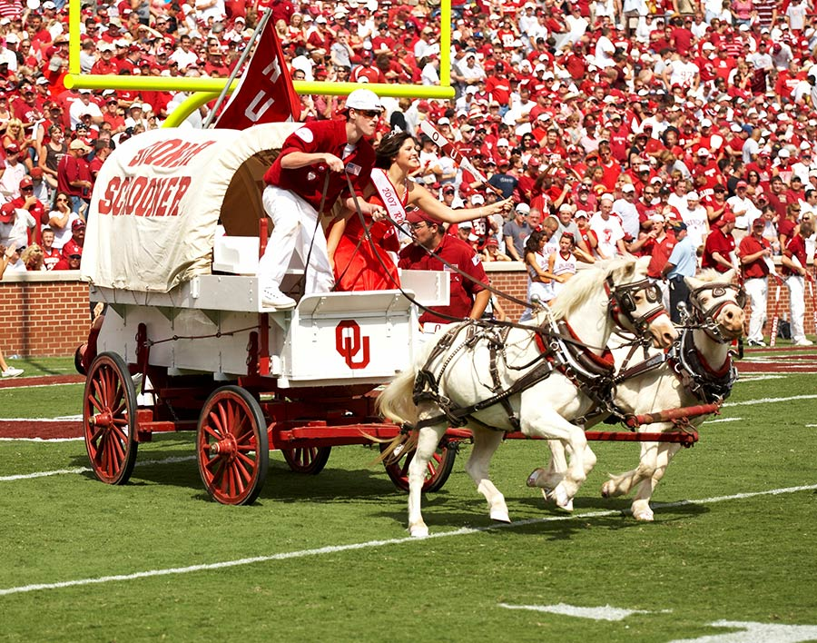 The Sooner Schooner pulled by Boomer and Sooner; mascots of the University of Oklahoma